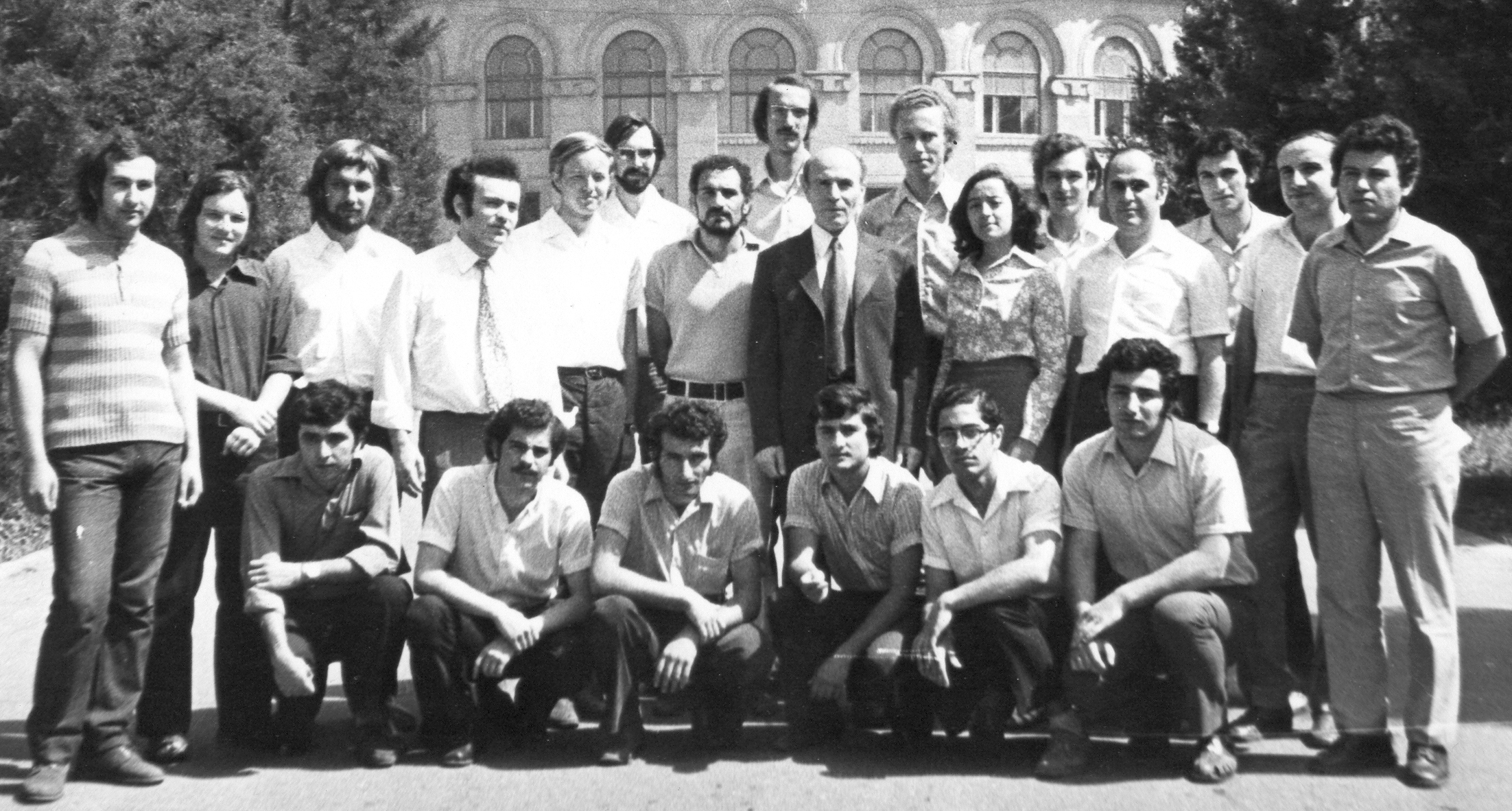 Edvard Chubaryan 75th Birthday, 05 May 2011 05, No. 39